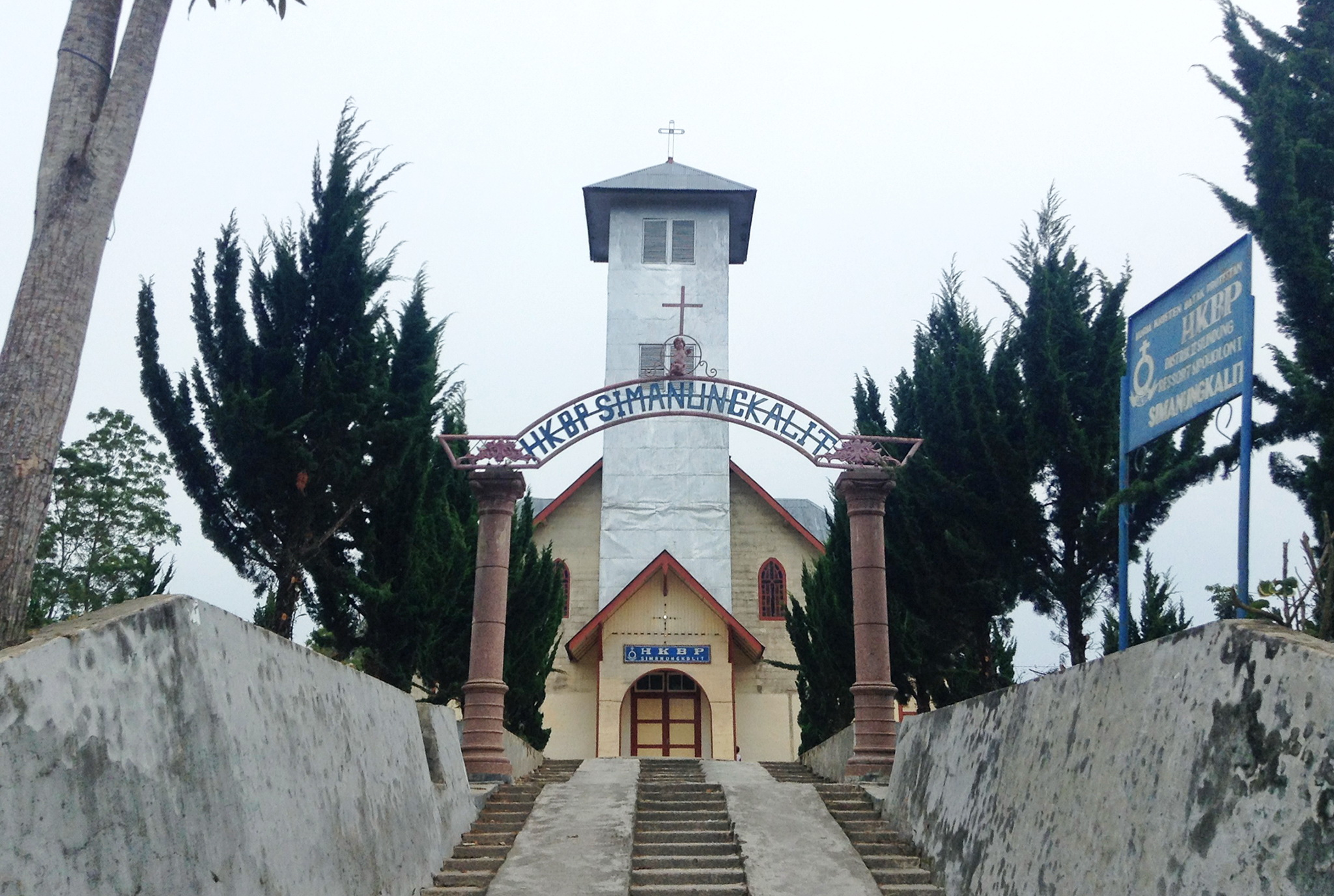 HKBP Simanungkalit, Church in Simanungkalit, Sipoholon, North Tapanuli